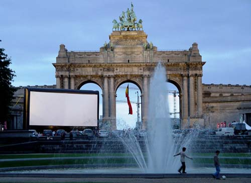 inflatable movie screen in Brussels